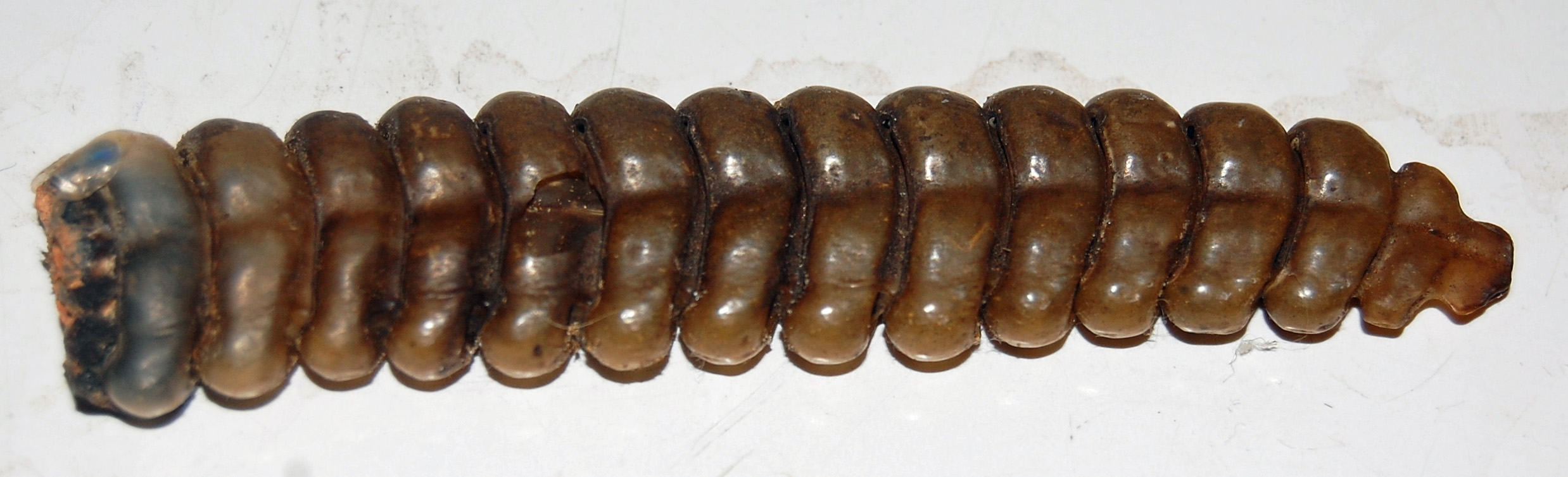 Rattlesnake rattles